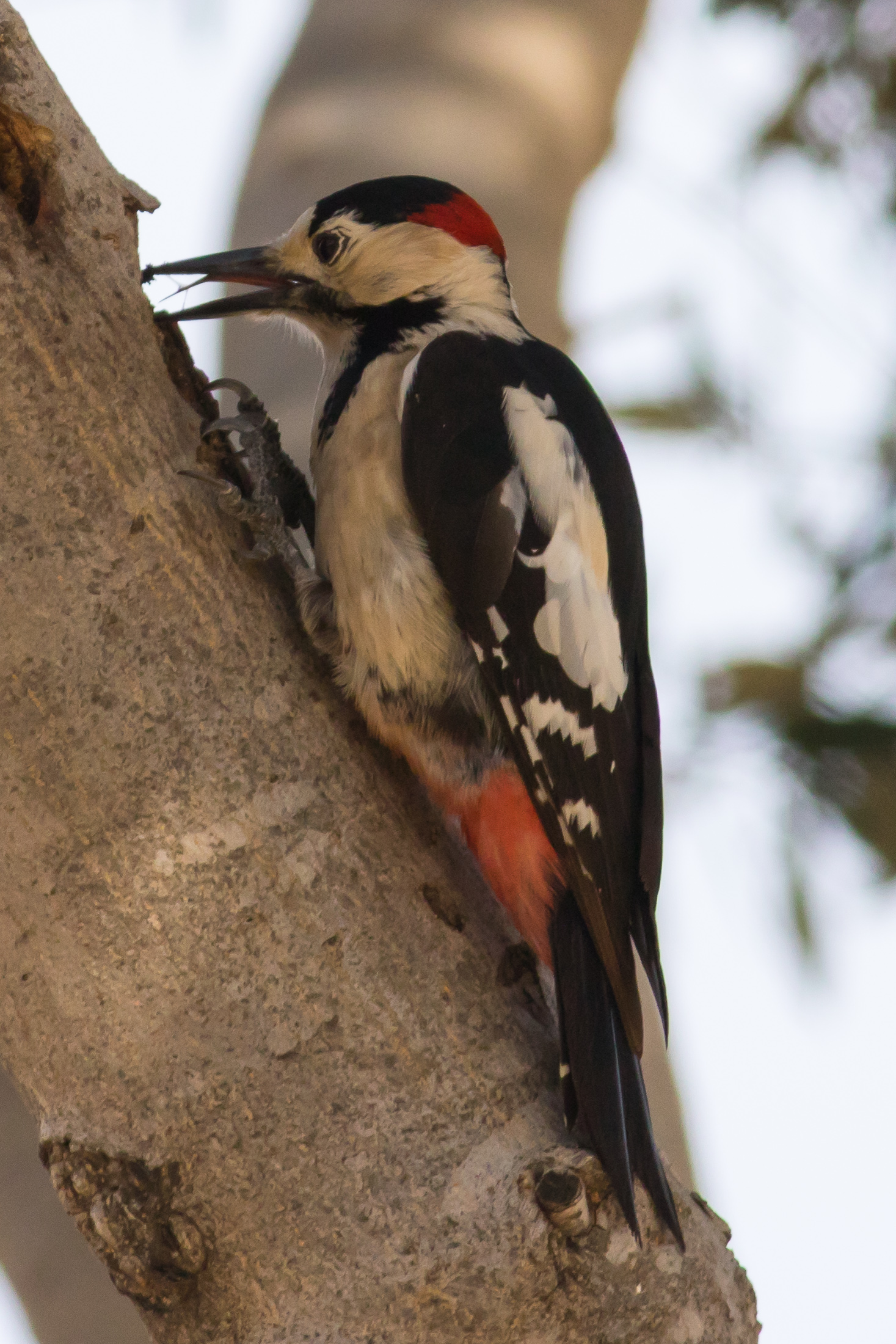 Dendrocopos syriacus, Ashkelon National Park, Israel.